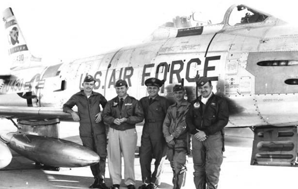 The 1956 U.S. Air Forces in Europe (50th Fighter-Bomber Wing) representatives to the Air Force Fighter Weapons Meet at Nellis Air Force Base, Nev., included (left to right) Capt. Coleman Baker, Lt. Col. Charles "Chuck" Yeager, Col. Fred Ascani, Maj. James Gasser and Capt. Robert Pasqualicchio.